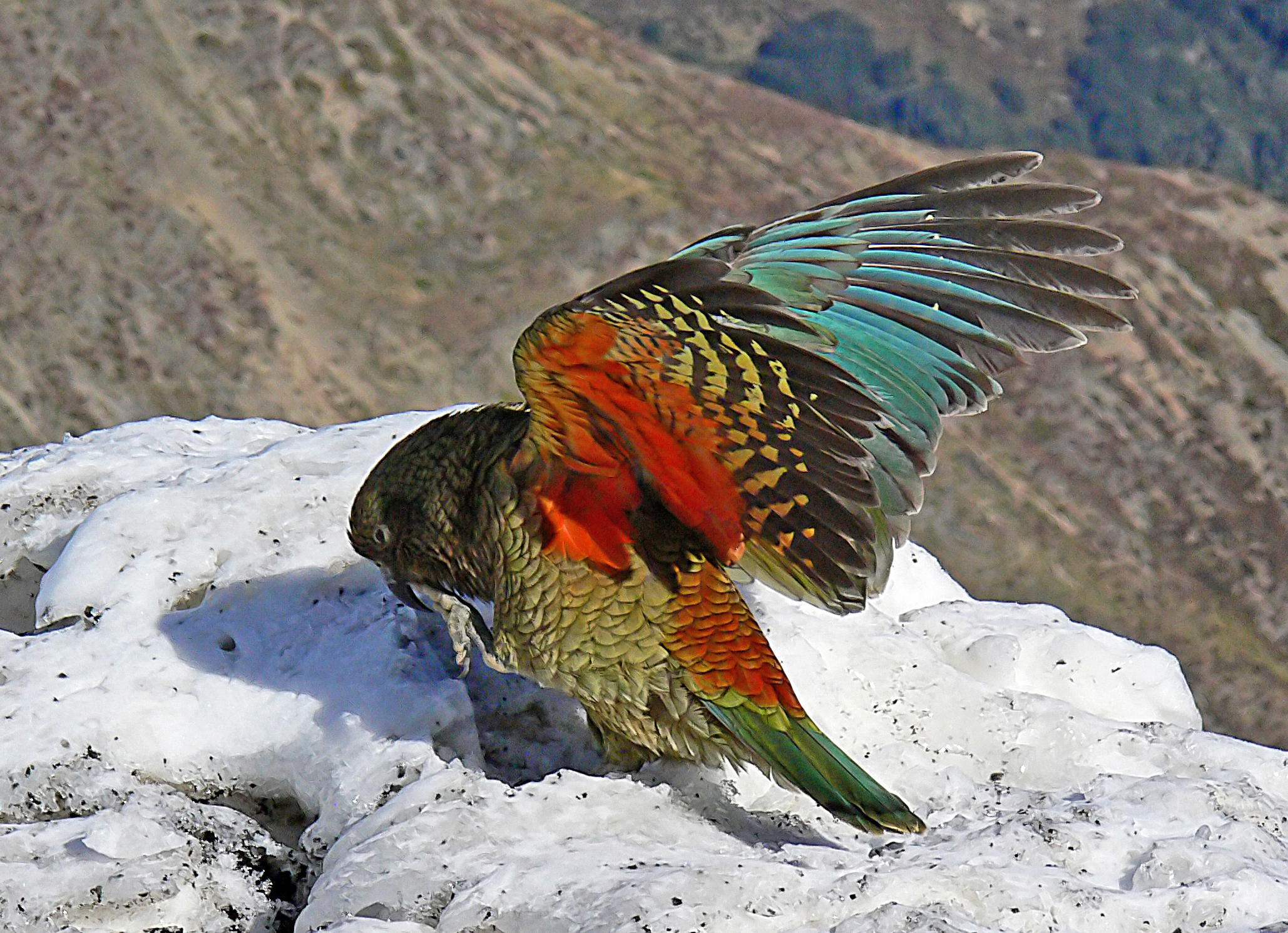 Above the forest line in the Southern Alps in the South Island of New Zealand are extensive areas partly covered in scrub and tussock, partly bare rocks and shingle, and mostly precipitous and difficult to traverse. This entire region is exposed to an unforgiving mountainous climate, snow and bleak winds in winter, mist and wind in summer. It is here, and in the upper margins of the beech forest, that the Kea, the world’s only mountain parrot, has evolved a level of intelligence that rivals that of the most sophisticated monkeys.